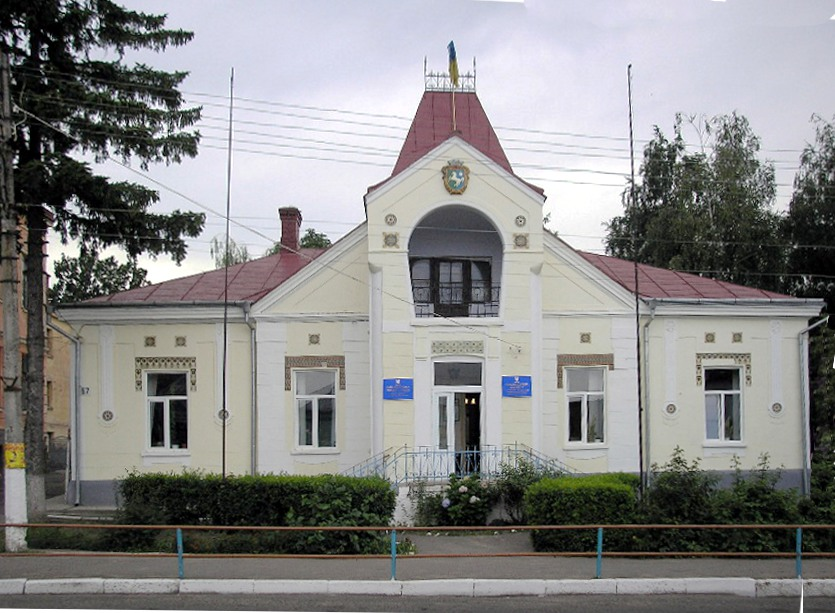 Kitsman town. Chernivtsi regin. Ukraine.